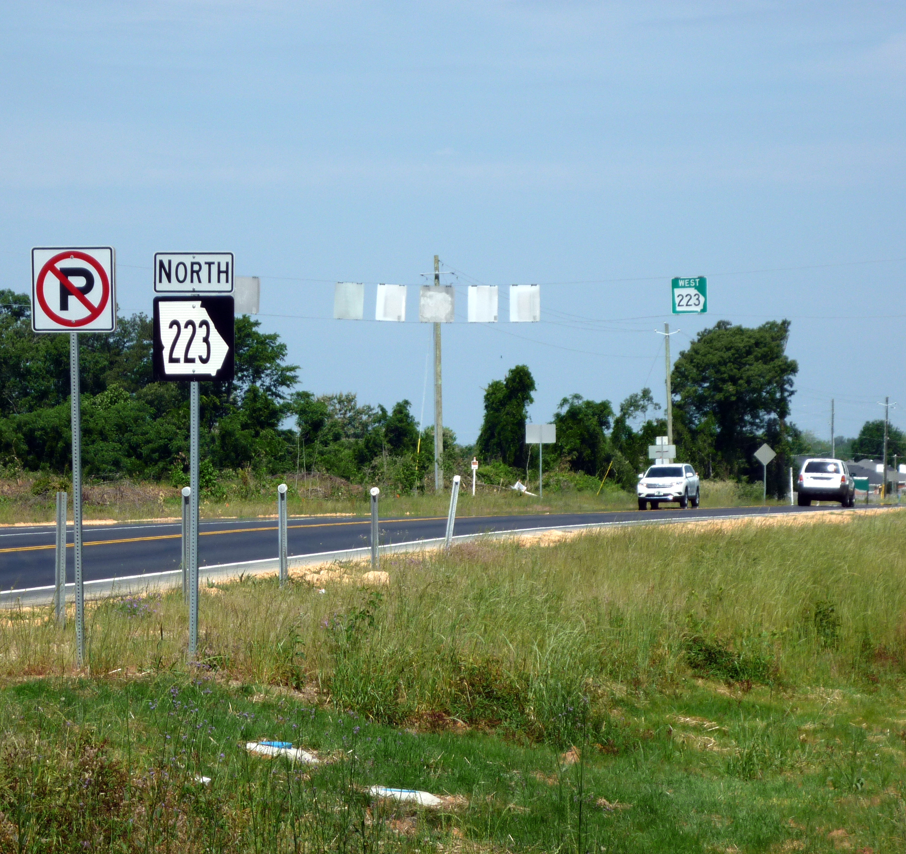 This is Georgia State Route 223, near its eastern terminus, near Fort Gordon's Gate 2.